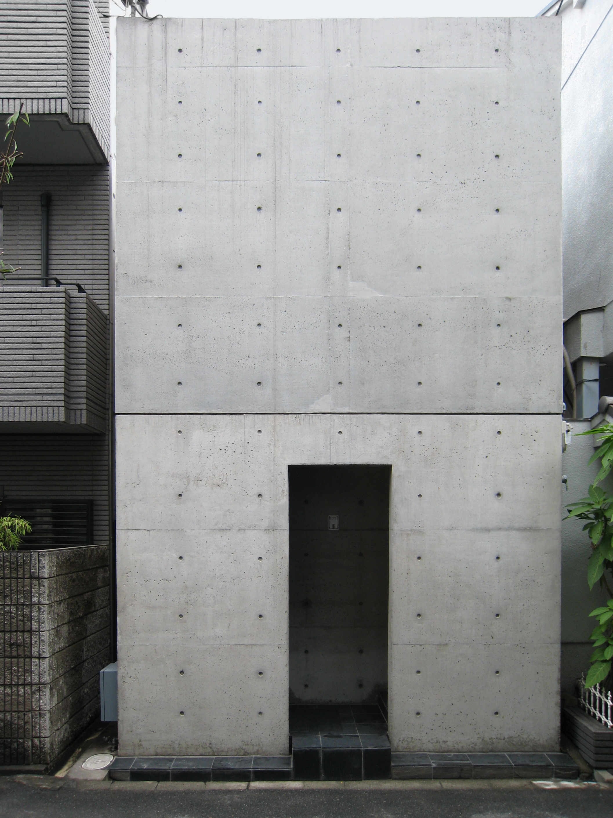 Row House (Azuma House), Sumiyoshi, Osaka, in Japan, 1976